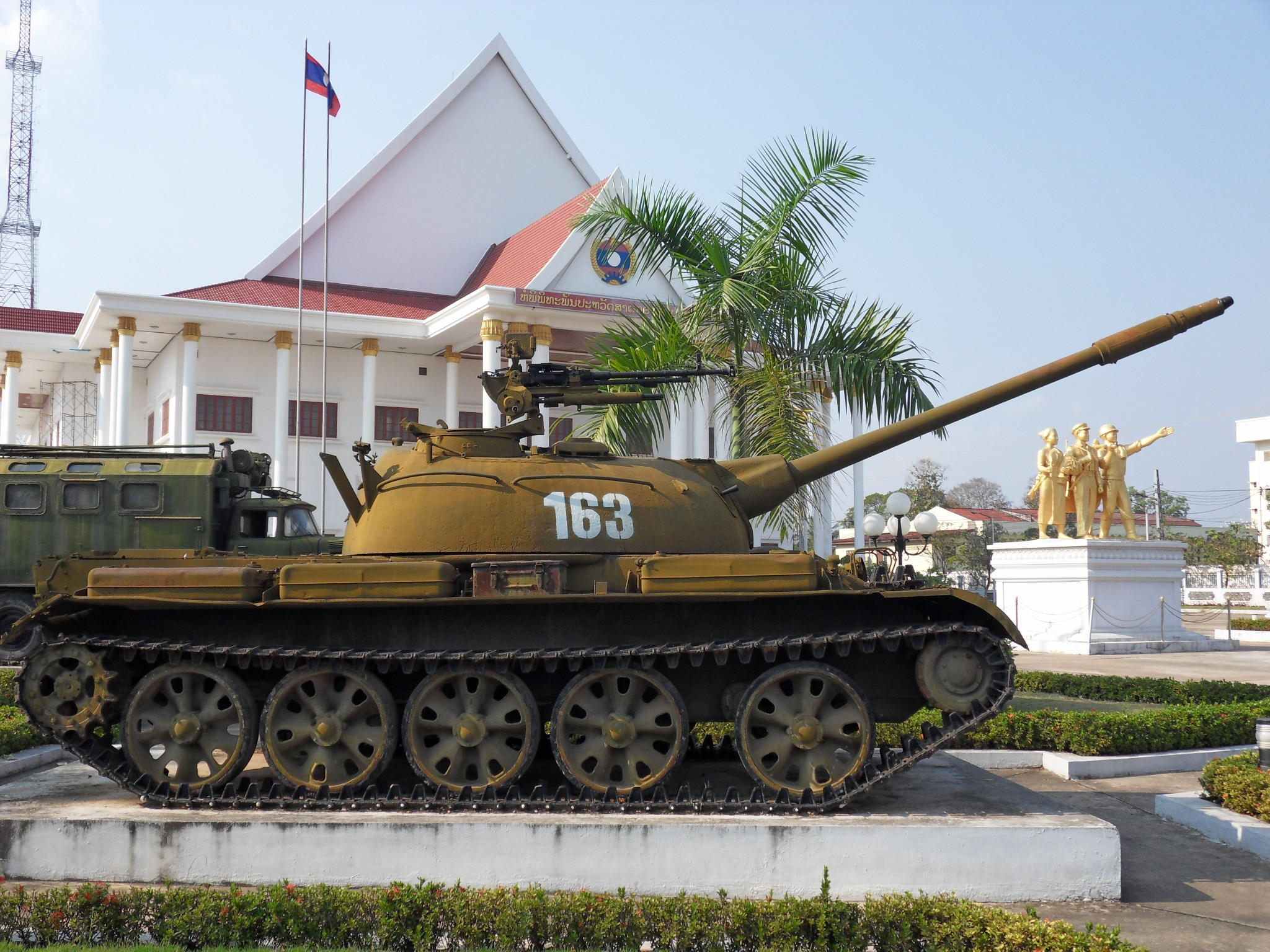 Chinese-made Type 62 light tank in Vientiane, Laos. Used from 1971 to 1973.